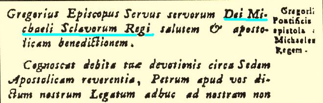 Pismo pape Grgura VII. dukljanskom kralju Mihailu Prebačeno sa Hrvatske wikipedije na commonos